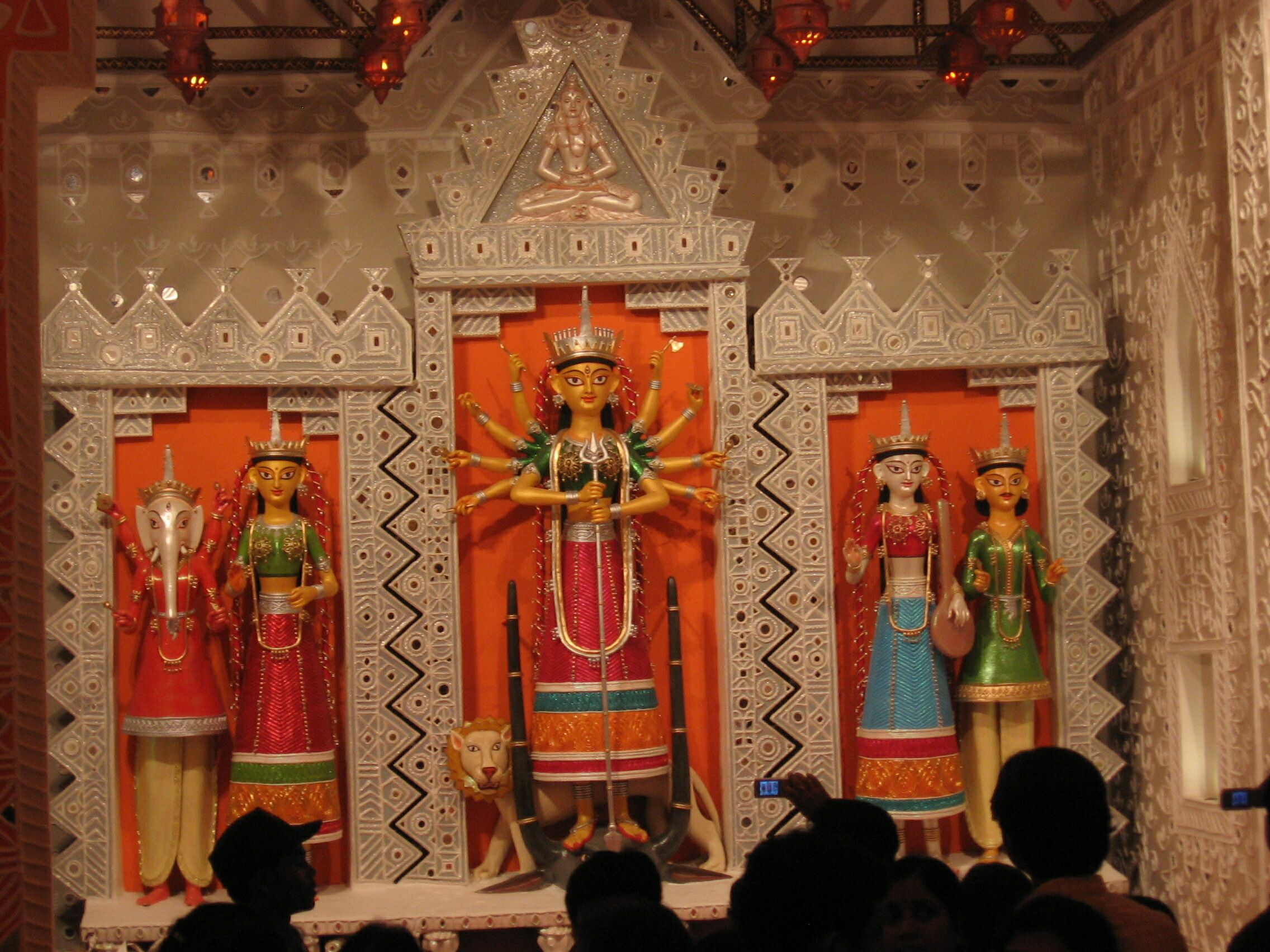 image of Goddess Durga at the pandal by Suruchi Sangha, in New Alipore, Kolkata. The pandal is in the Gurjari handicraft / construction style of Western Gujarat, and this idol also reflects this theme in the earthy tones and vivid contrasts, and the stylized elongated shapes.